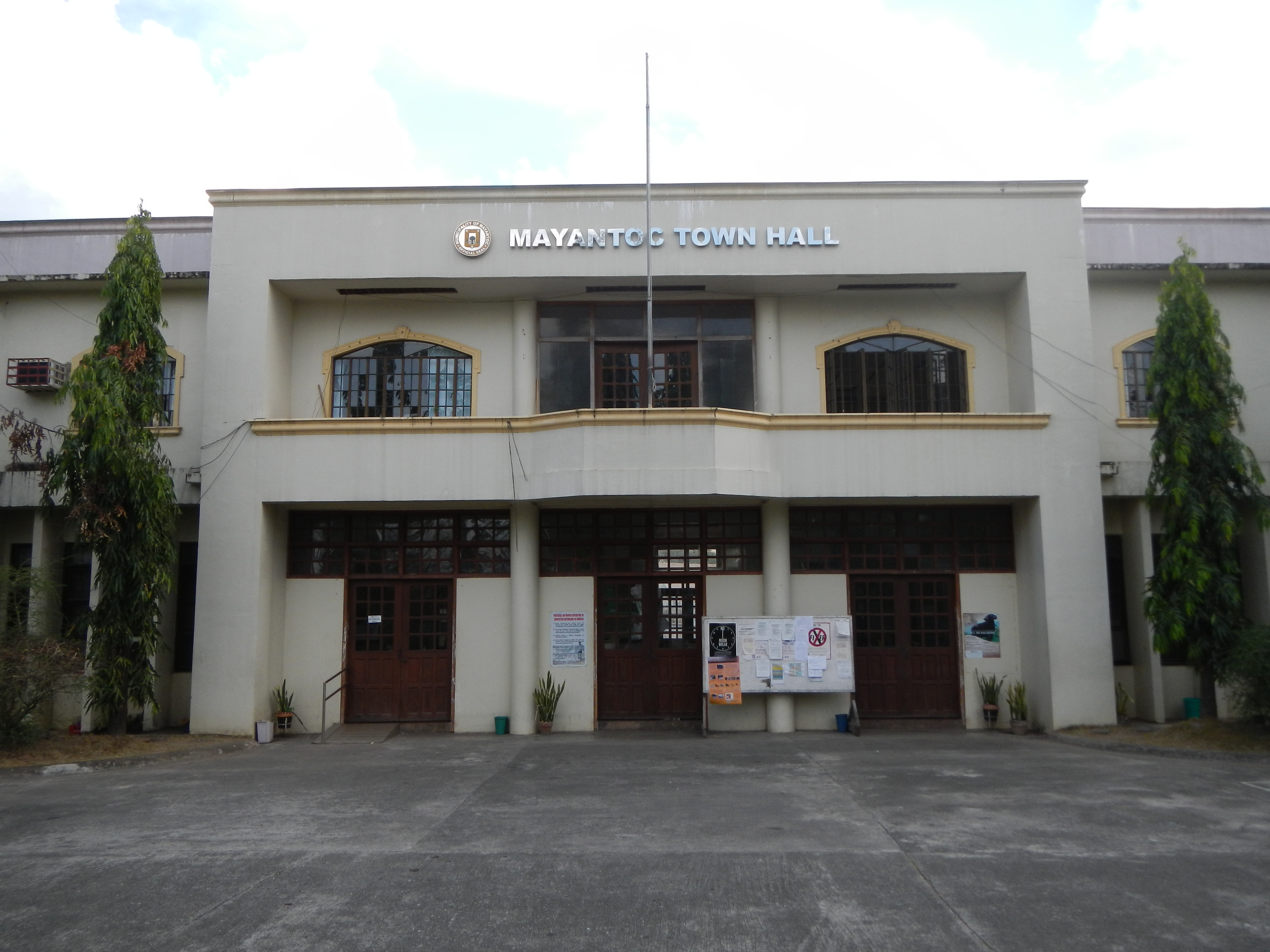 Mayantoc, Tarlac[1] Area: 311.42 km² ZIP Code: 2304[2]Coordinates: 15°34'22"N 120°18'8"E[3] [4]Mayantoc, a mountainous grandeur that slopes gently to the east with its isolated pocket hills and rolls ruggedly on its terrain to the west---has an average humidity of 70.08 degrees Celsius--- that is relatively cool compared to other towns in the province of Tarlac, completing the atmosphere-like feel of Baguio City with its tall pine trees lining the side of the road beside the archway leading to the town’s center...2012[5]